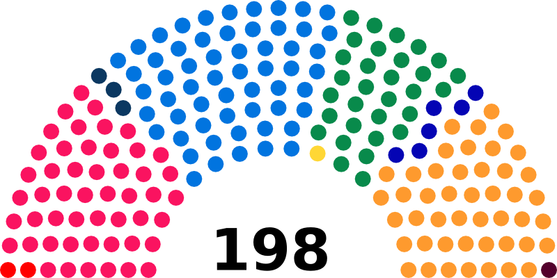 Seats diagramme of Swiss National Council (1928)